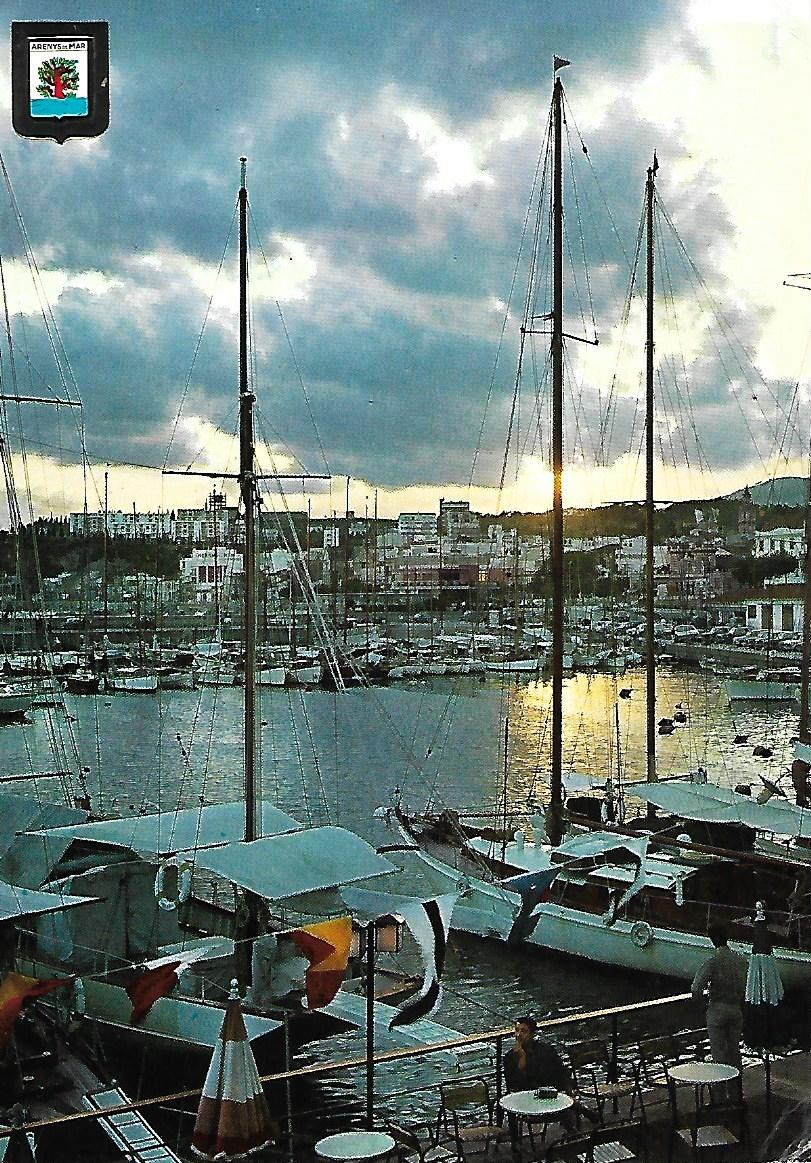 "Escudo de Oro" Postcard. Port of Arenys de Mar at the sunset 1966